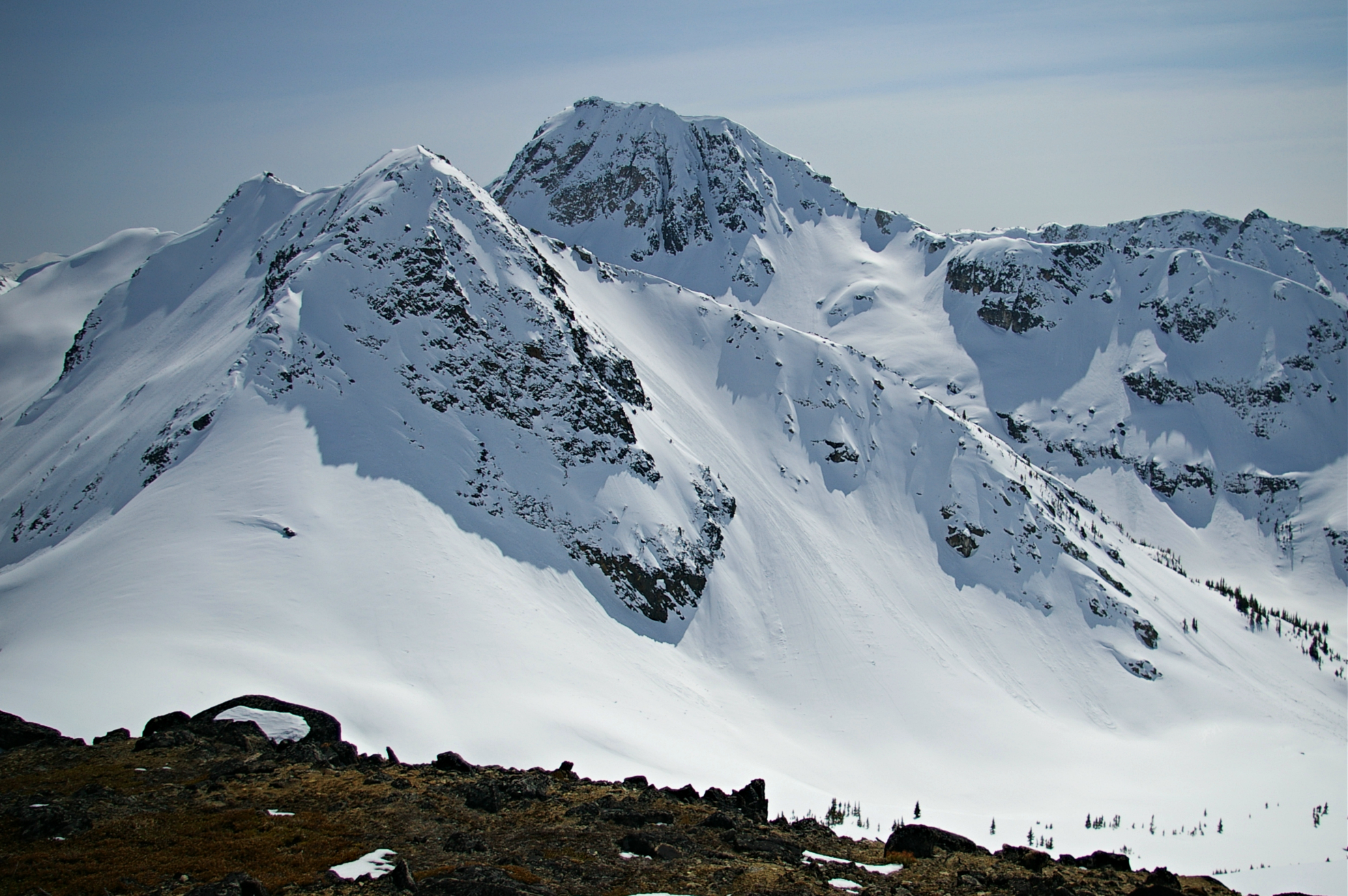 Tolkien Peak (2,380m) viewed for west ridge of Peregrine